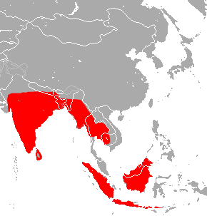 Long-Winged Tomb Bat (Taphozous longimanus) range